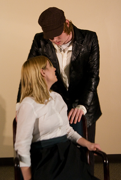 Still from a production of Silence by Harold Pinter in the Cinderella Lounge at Shimer College in Chicago in November 2008.